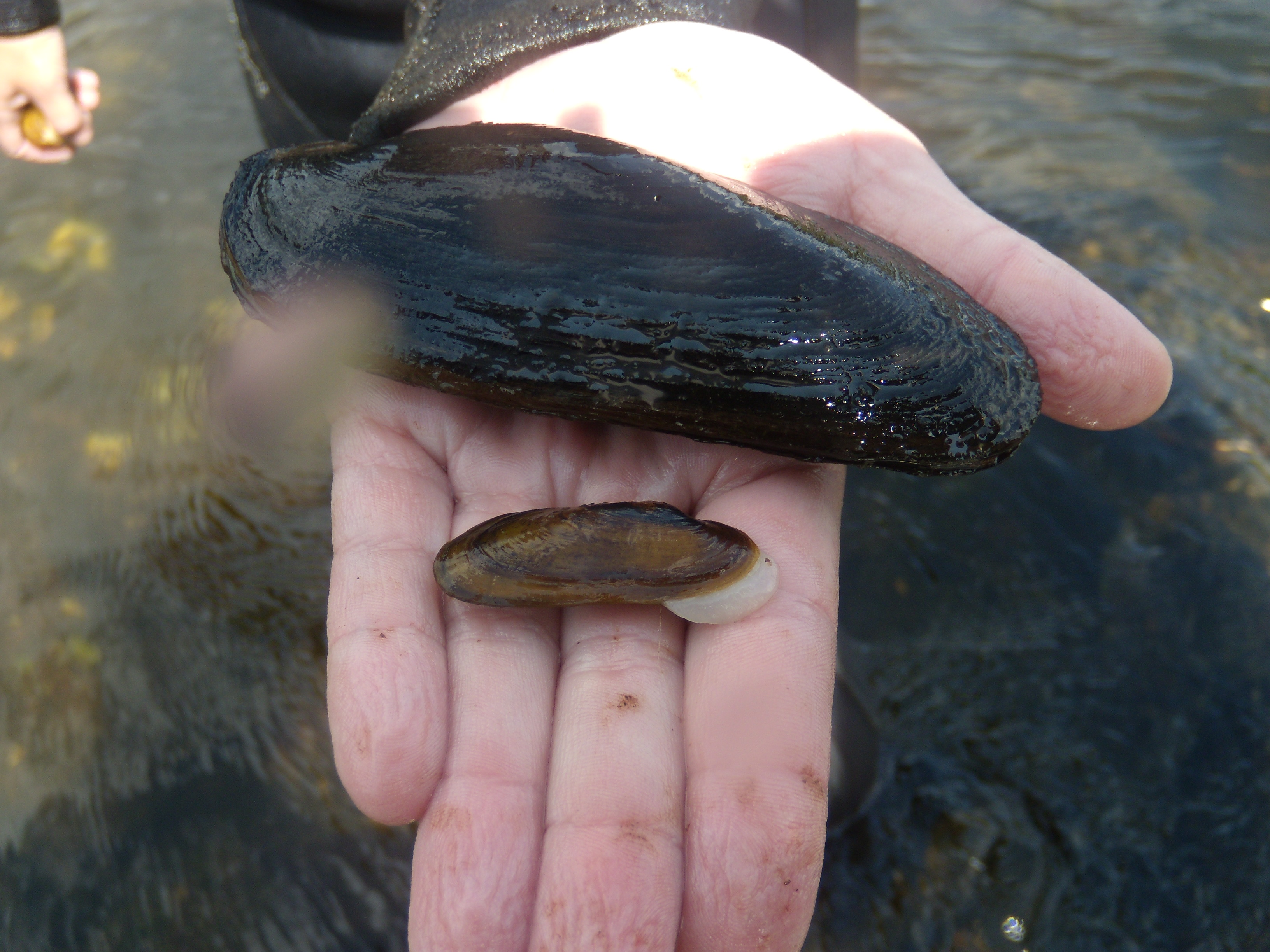 A young and mature Cumberlandia monodonta (spectacle case mussel). These specimens were found in the St. Croix River in Minnesota. For more information Photo by USFWS; Tamara Smith